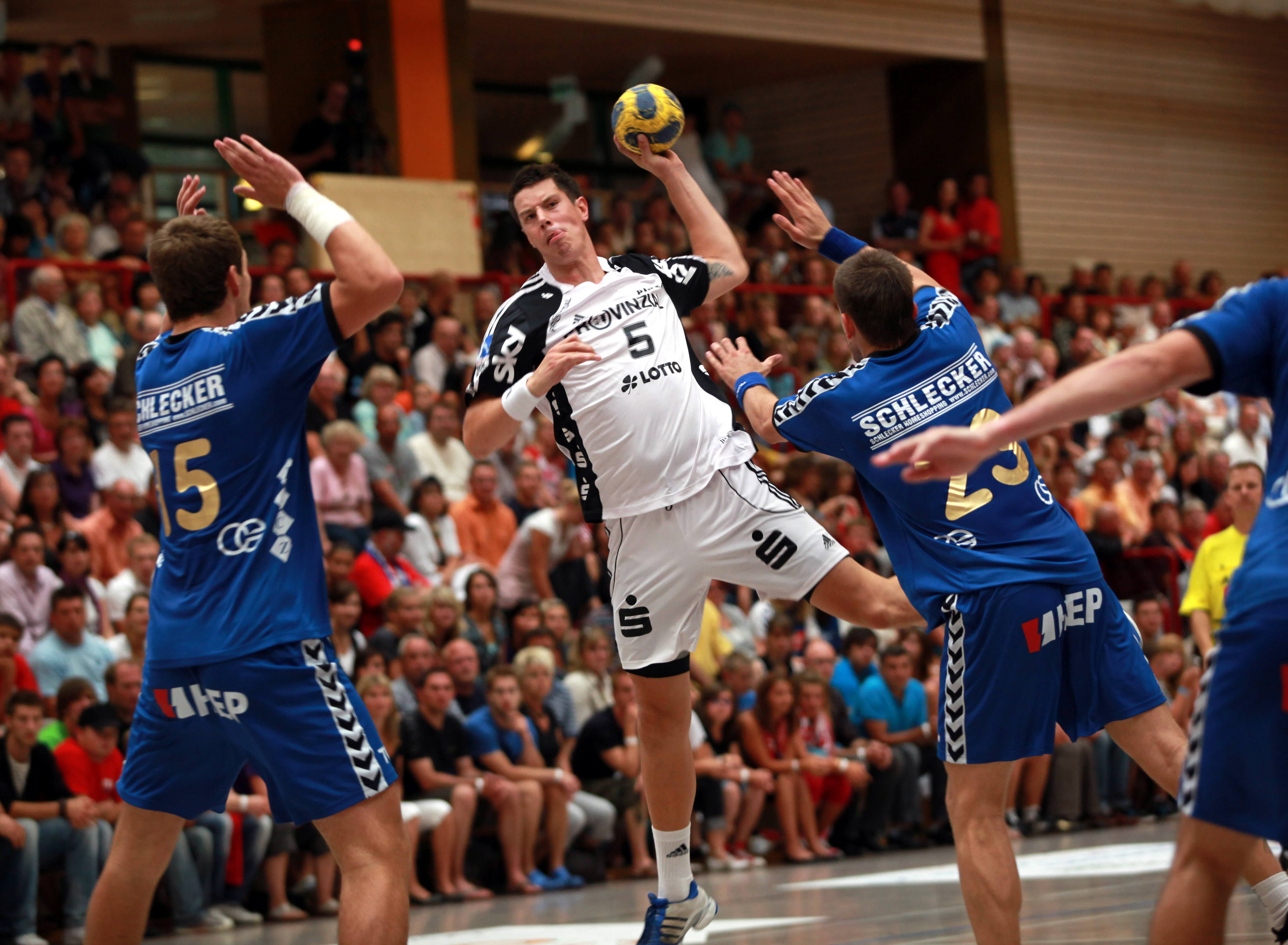 Kim Andersson, the Swedish handball player from THW Kiel, during the Schlecker Cup 2009 in Ehingen (Germany)